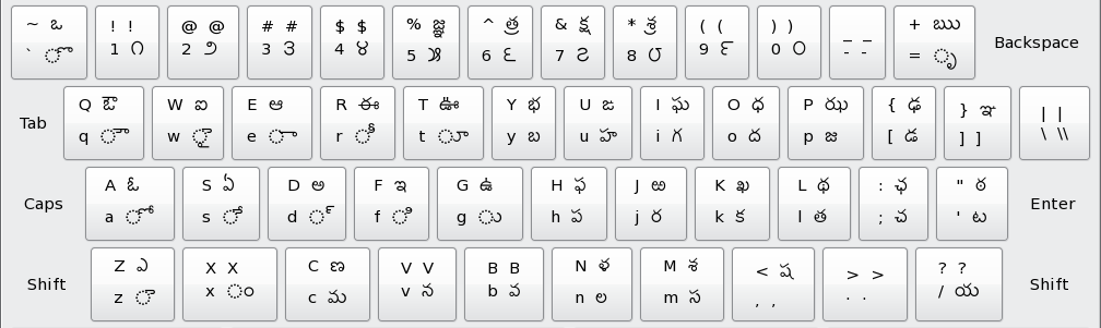 Inscript keyboard layout for Telugu